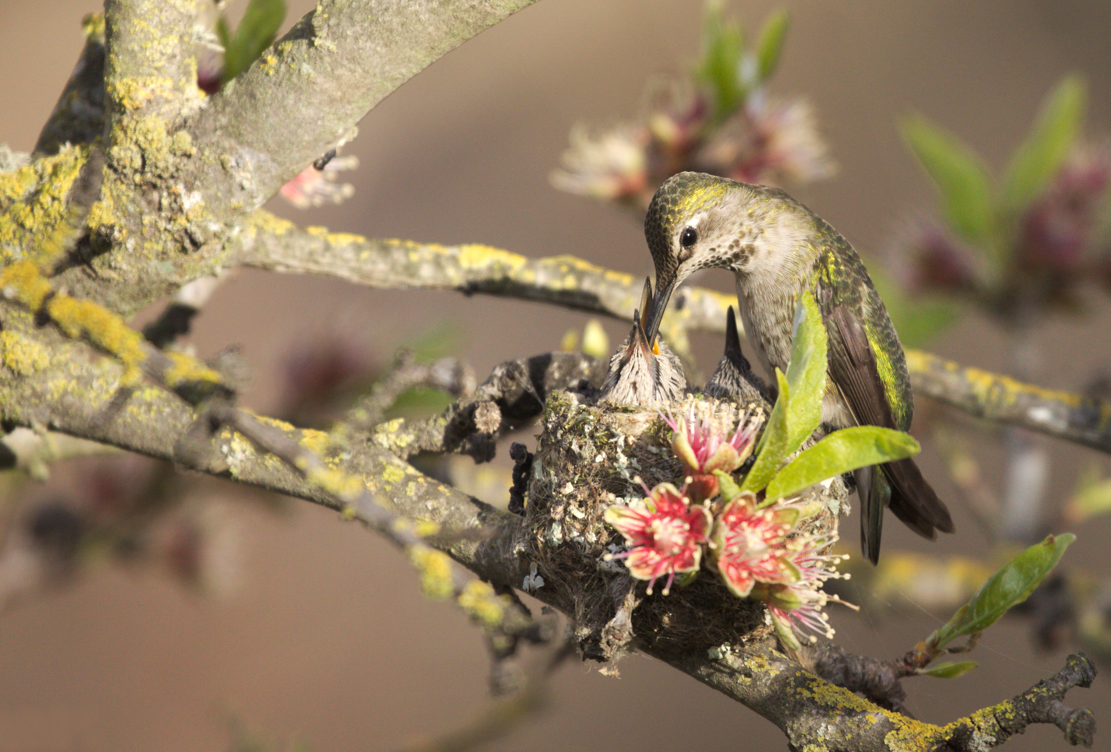 Female Anna's Hummingbird (Calypte anna) feeds two nestlings.